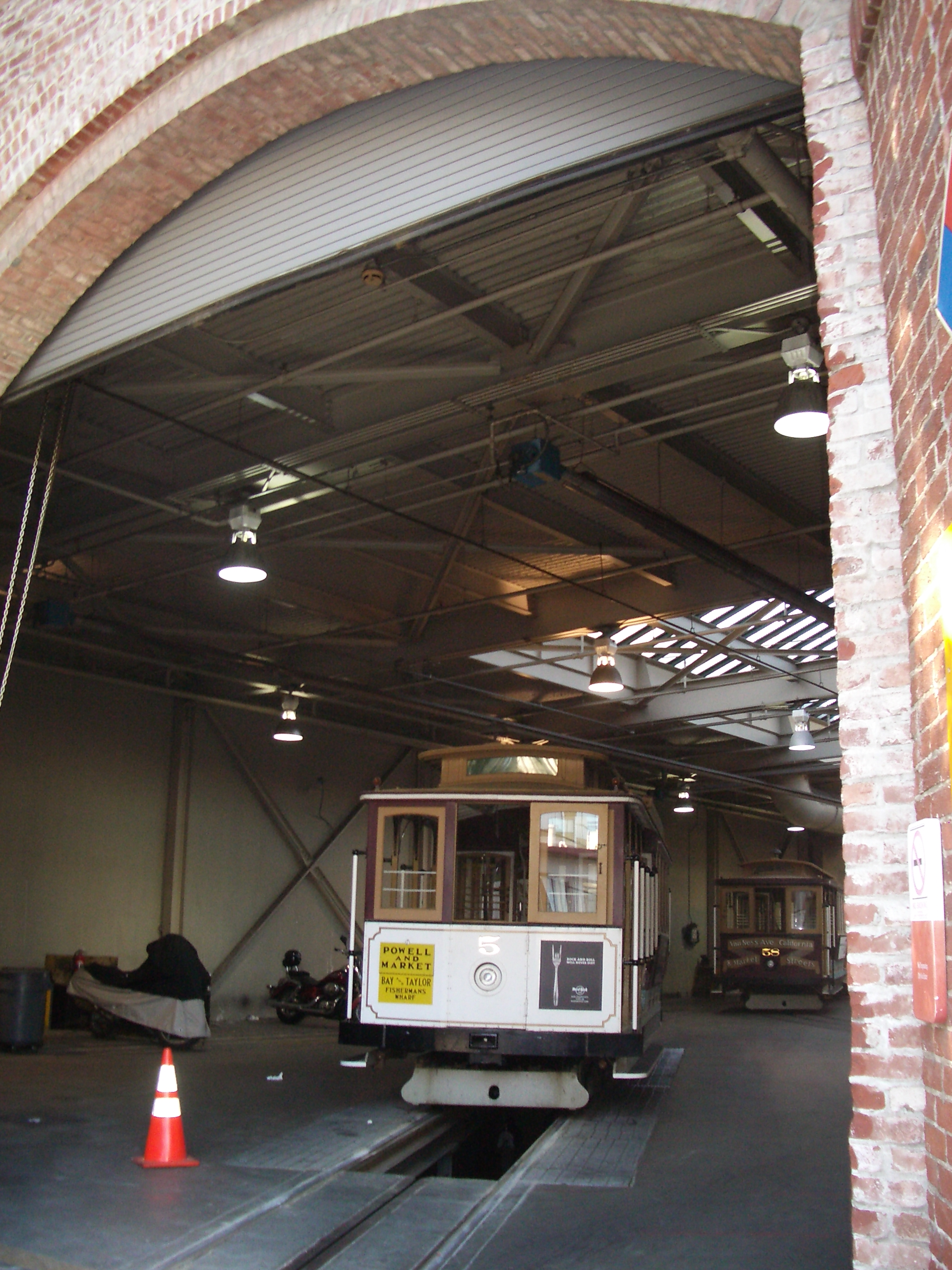 San Francisco Municipal Railway: The building where they fix the streetcars.